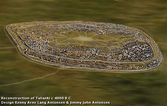 Reconstruction of Trypillian city Talianki c 4000 B.C. Based on information from the book LOOKING FOR TRYPILLYA-CULTURE PROTO-CITIES by Mykhailo Videiko.